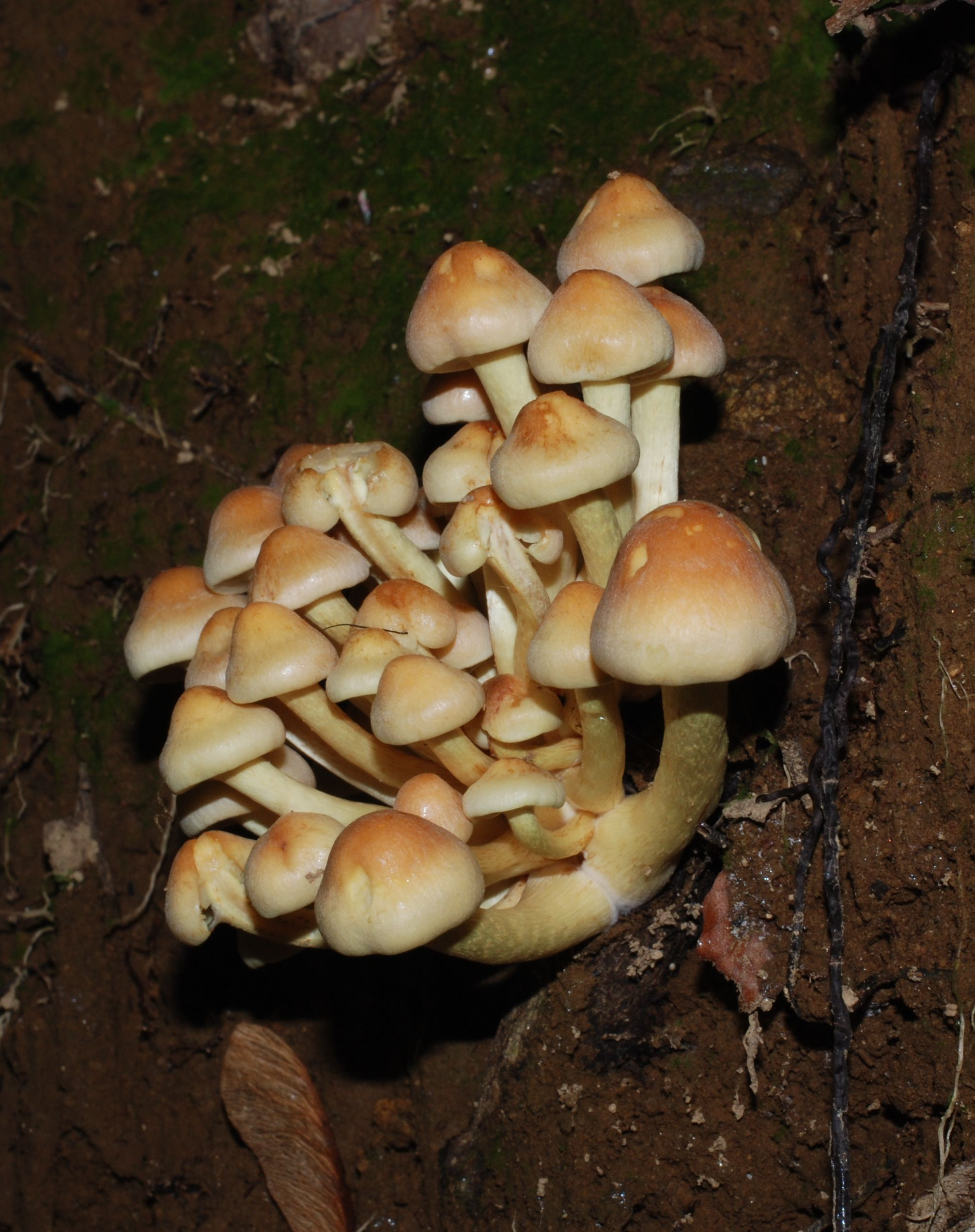 Hypholoma fasciculare, Unteres Rannatal, Austria